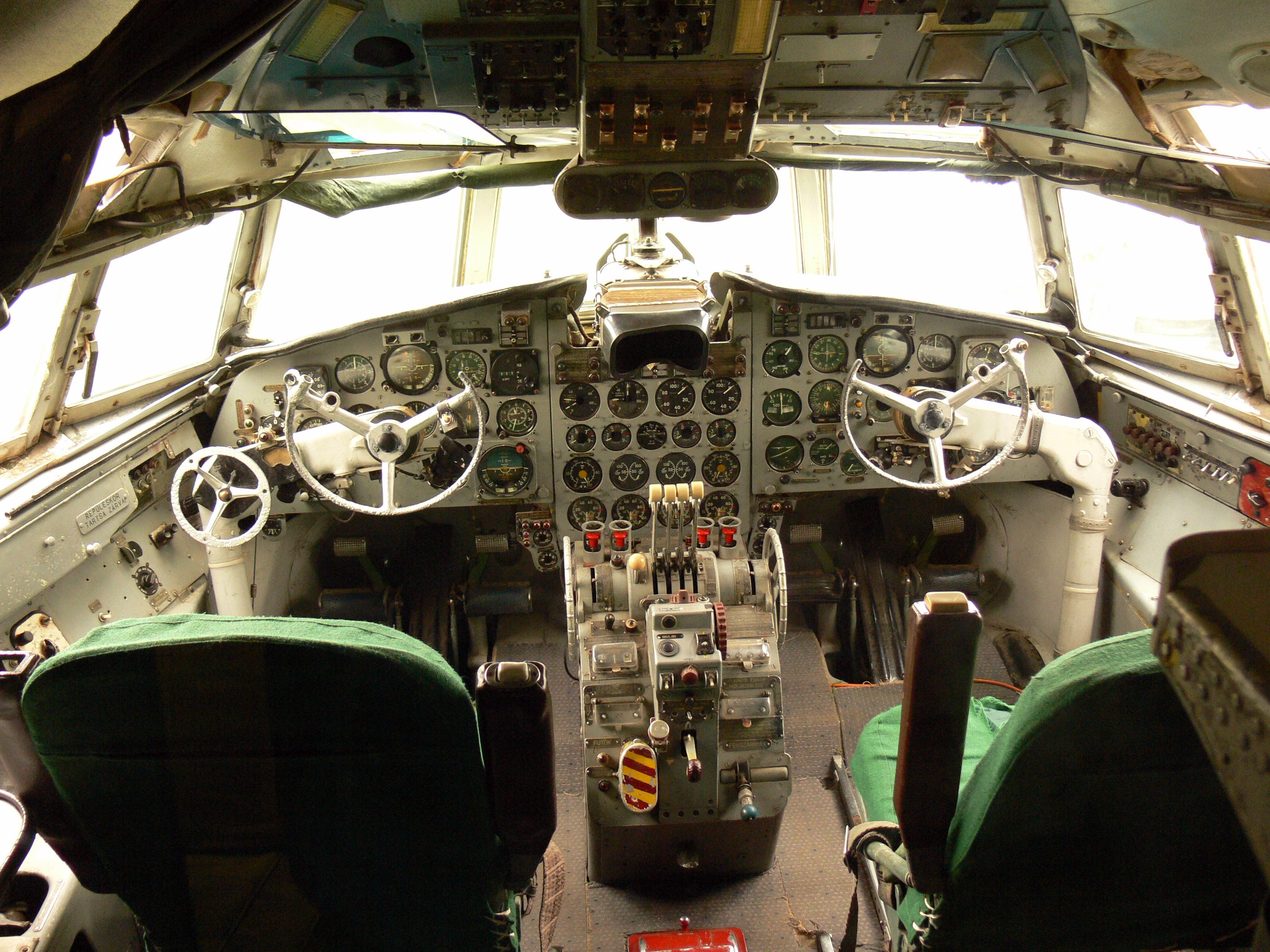 Ilyushin Il-18 - Malev Hungarian Airlines (HA-MOA) Location: Ferihegy Aviation Memorial Park (Budapest)